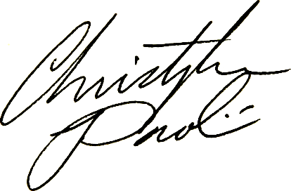 Christopher Paolini's signature.